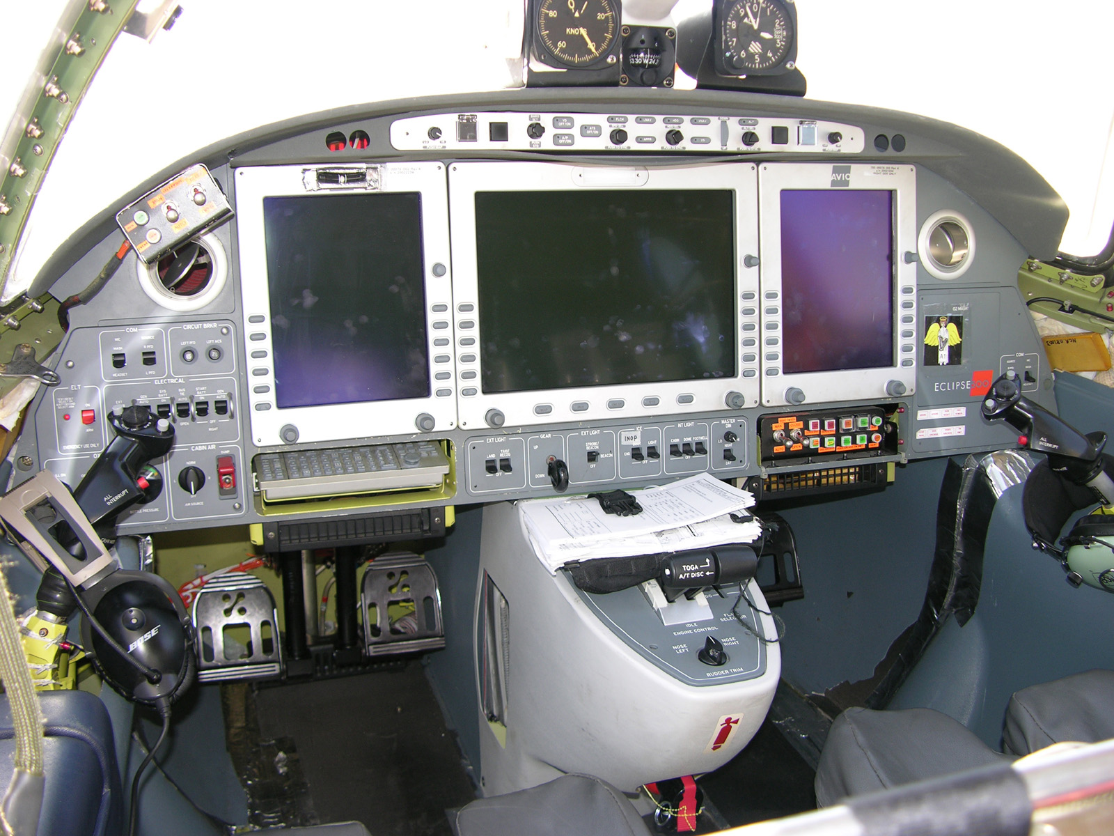 Cockpit of Eclipse 500 flight test aircraft, Mojave Airport